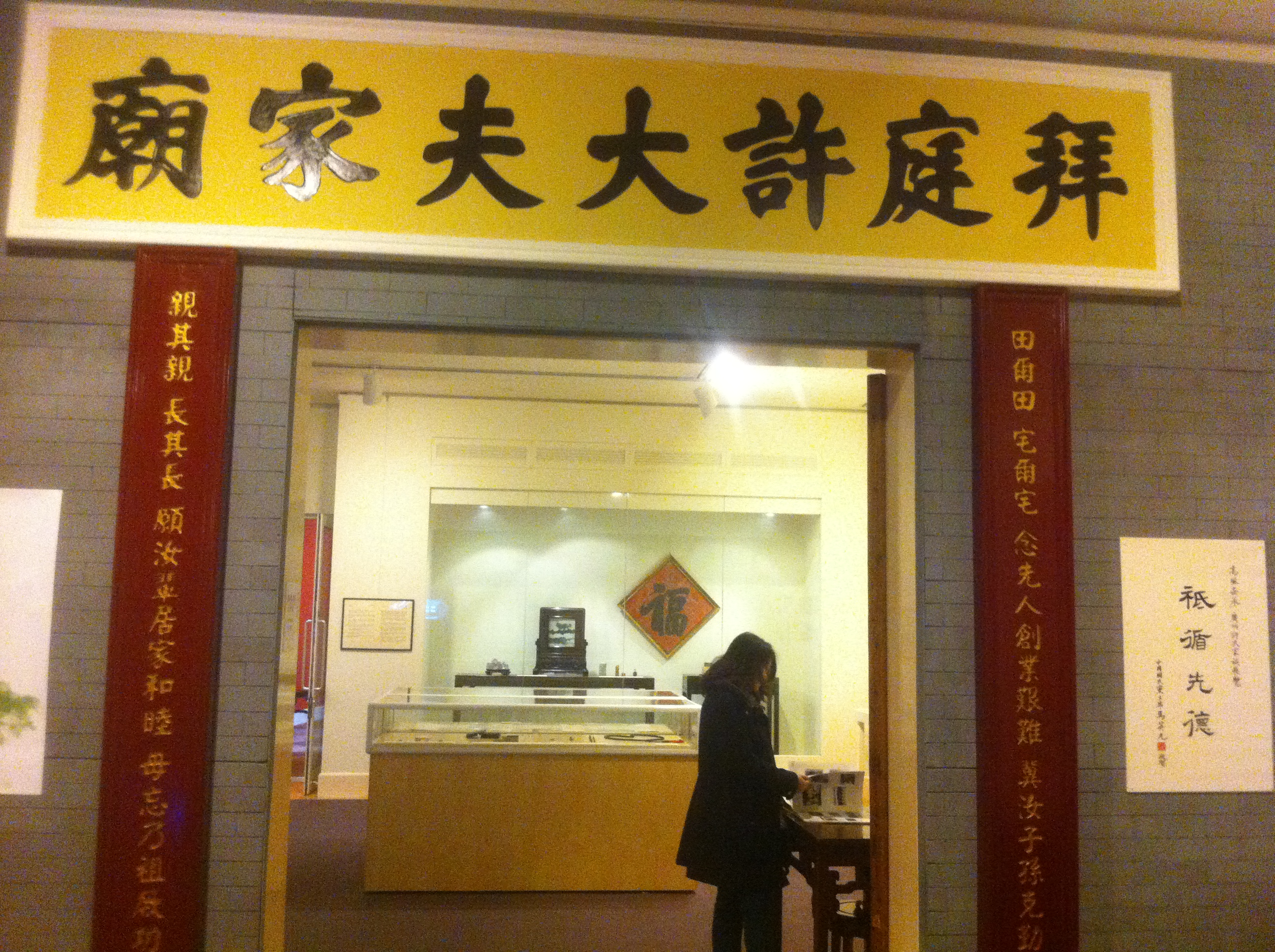 University Museum & Art Gallery, University of Hong Kong 香港大學美術博物館